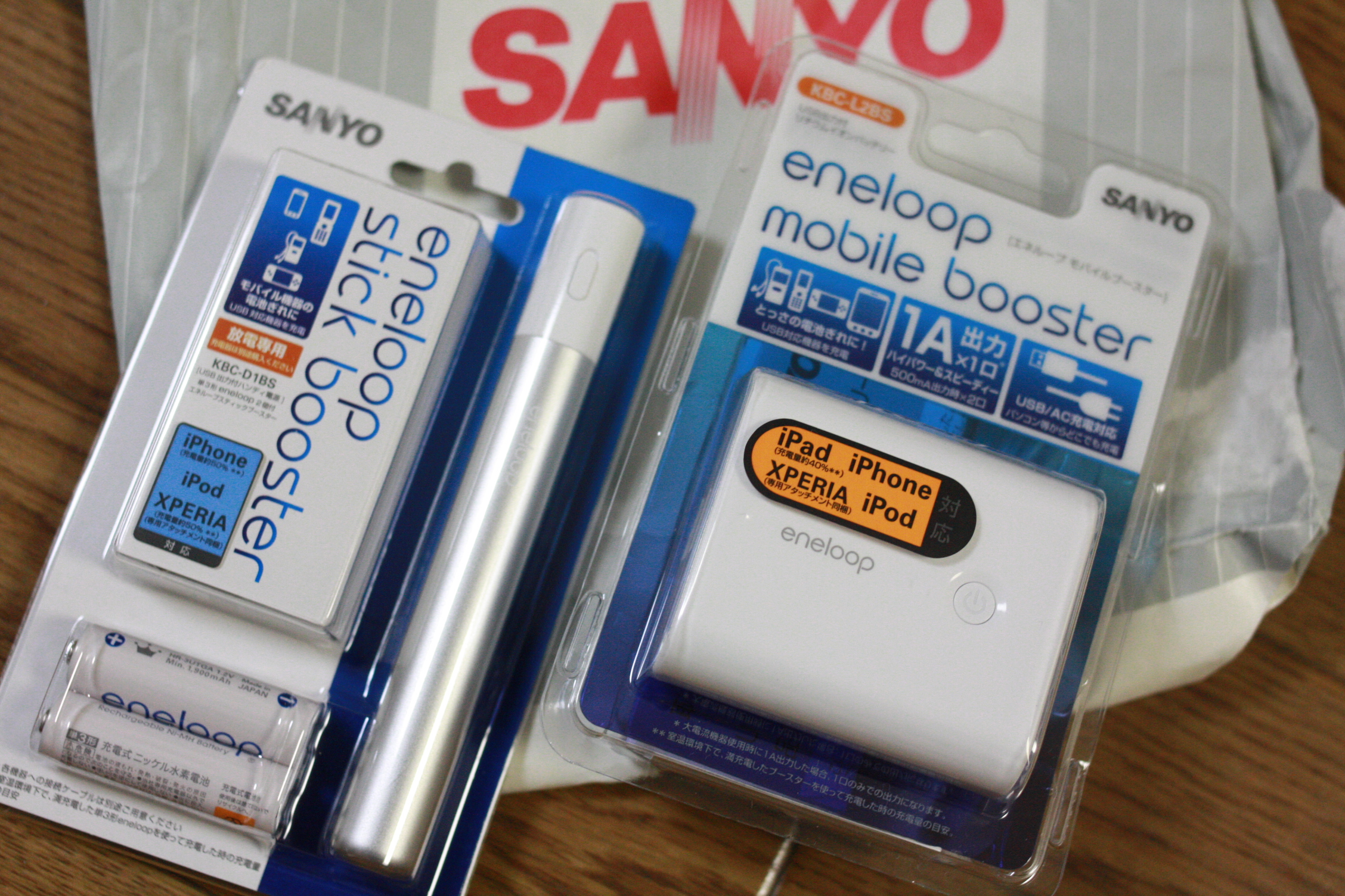 eneloop mobile boosters, left with eneloop batteries, right with Li-Ion.